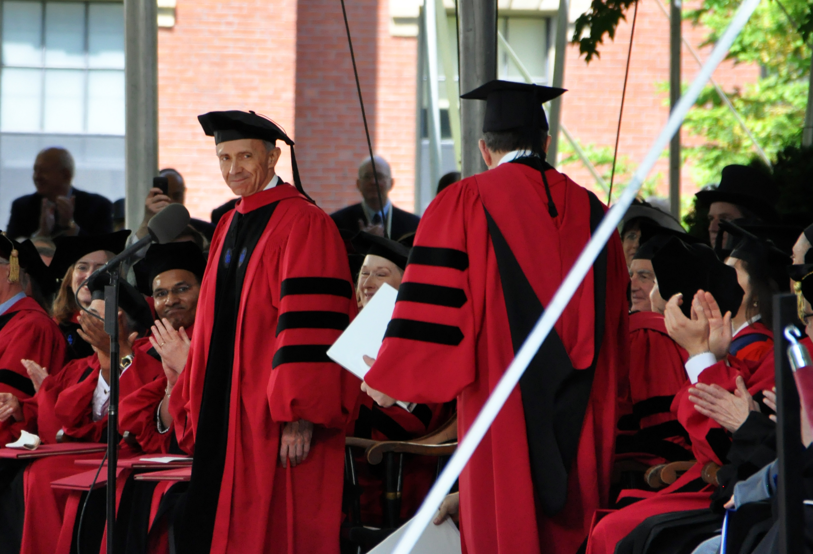 Justice David Souter receiving an honorary degree from Harvard University, Commencement 2010